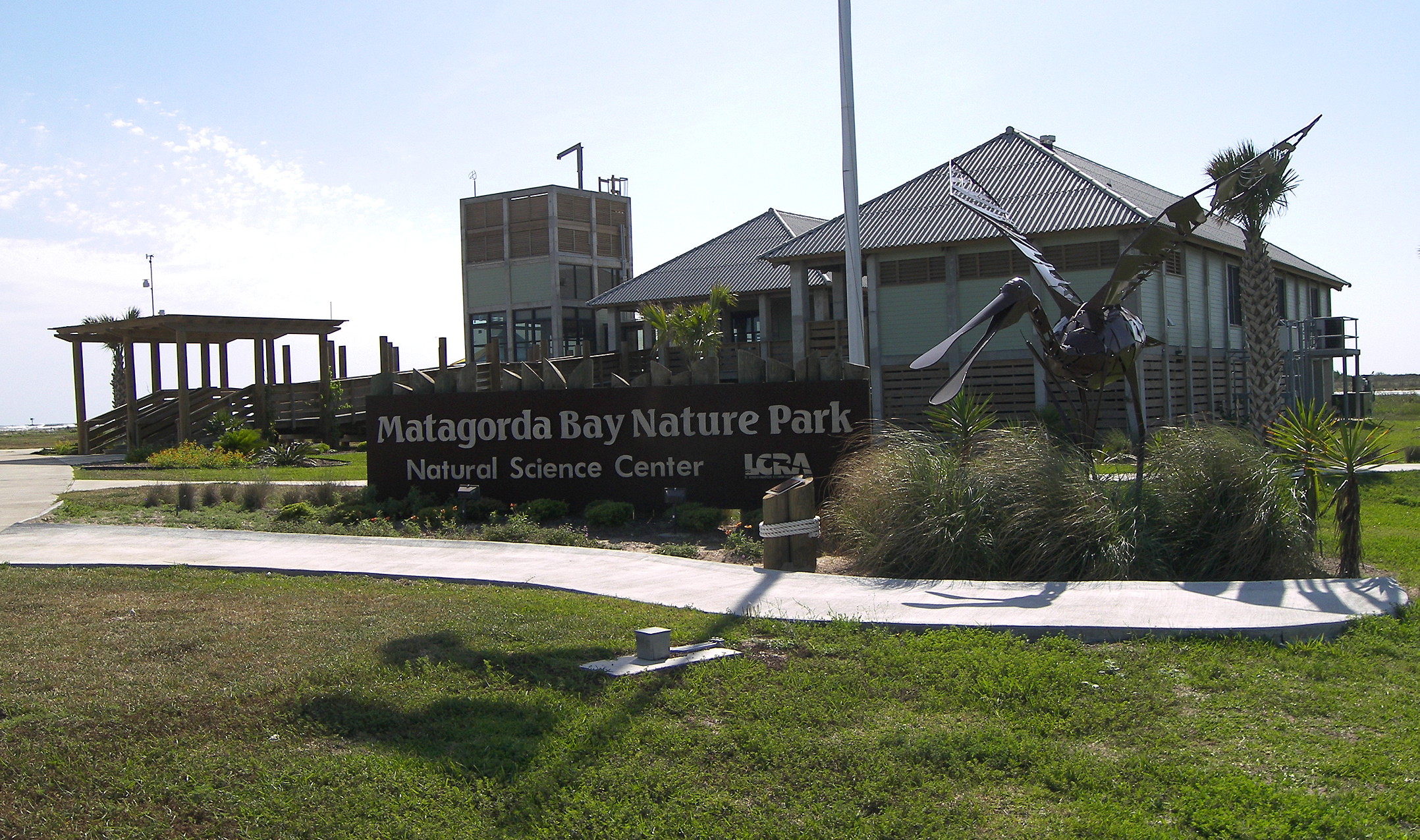 The Science Center at the LCRA Matagorda Bay Nature Park located south of Matagorda, Texas, United States.